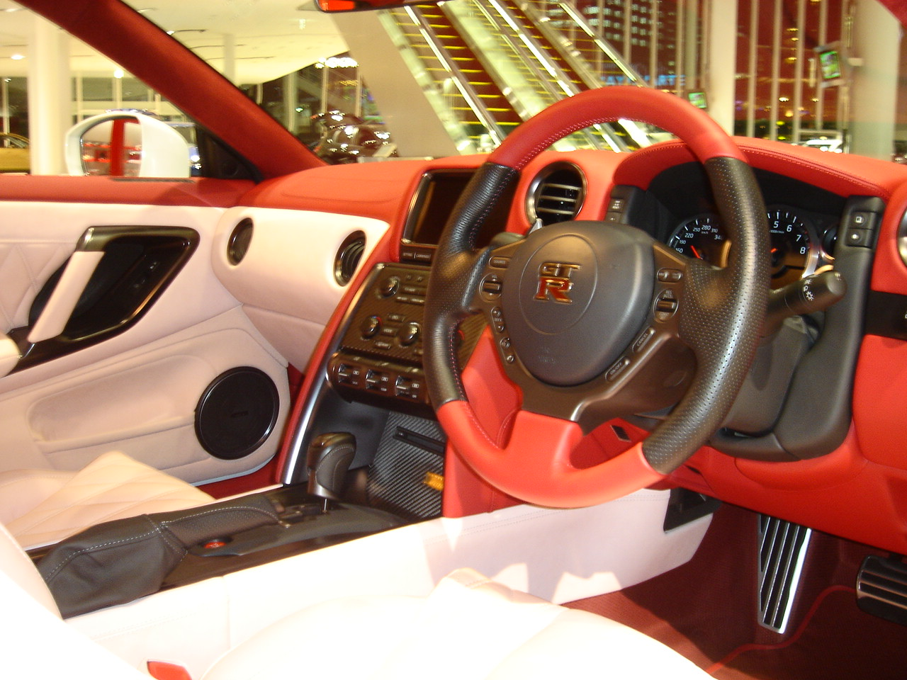 Nissan GT-R